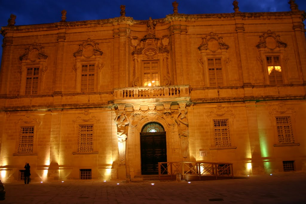 Facade of the Cathedral Museum of Mdina